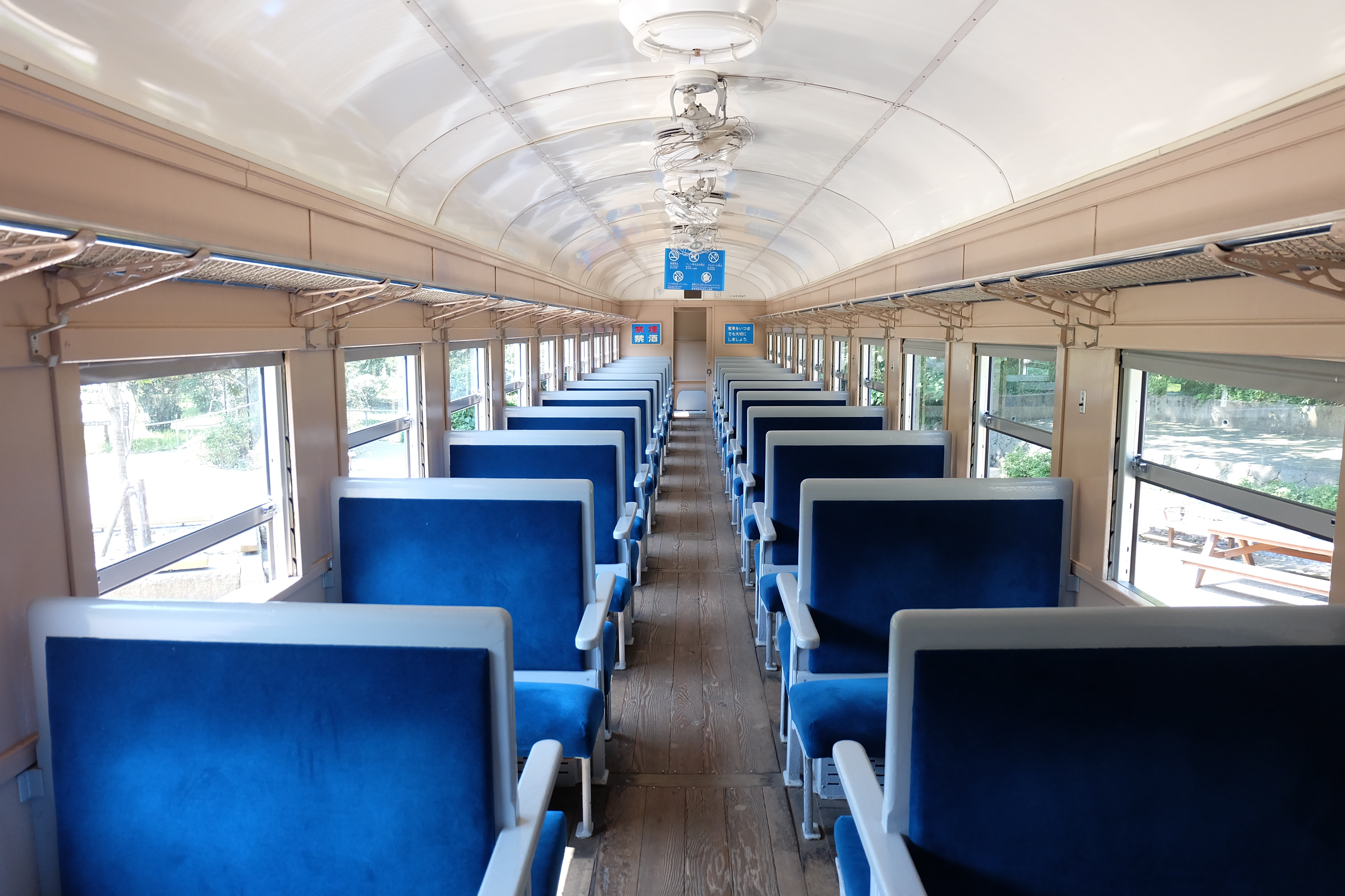 JNR passenger car SUHA42 2047 cabin